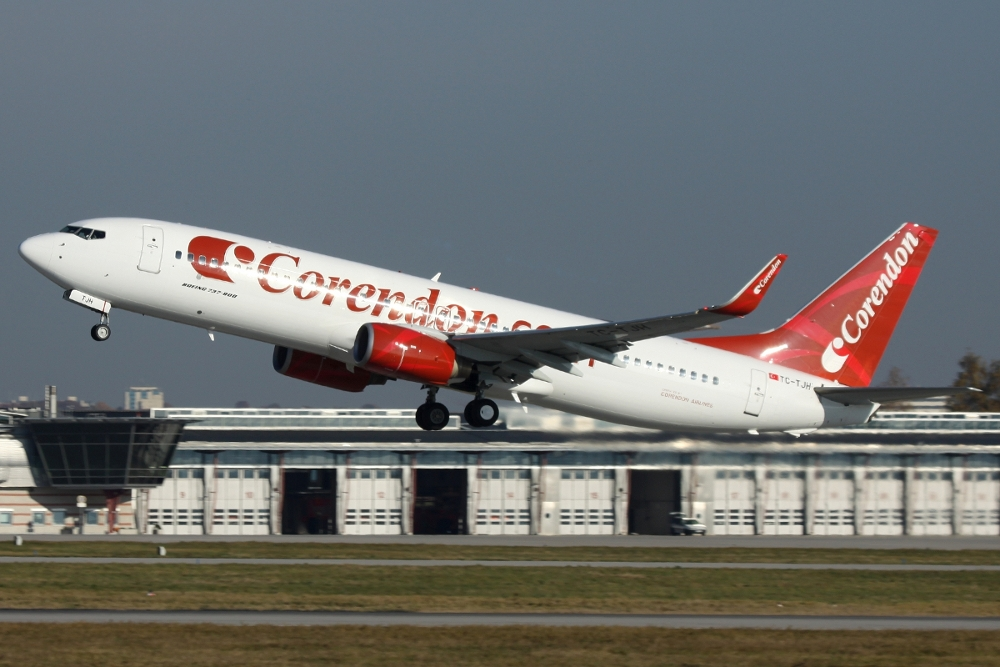 Corendon Airlines Boeing 737-800 (WL) TC-TJH